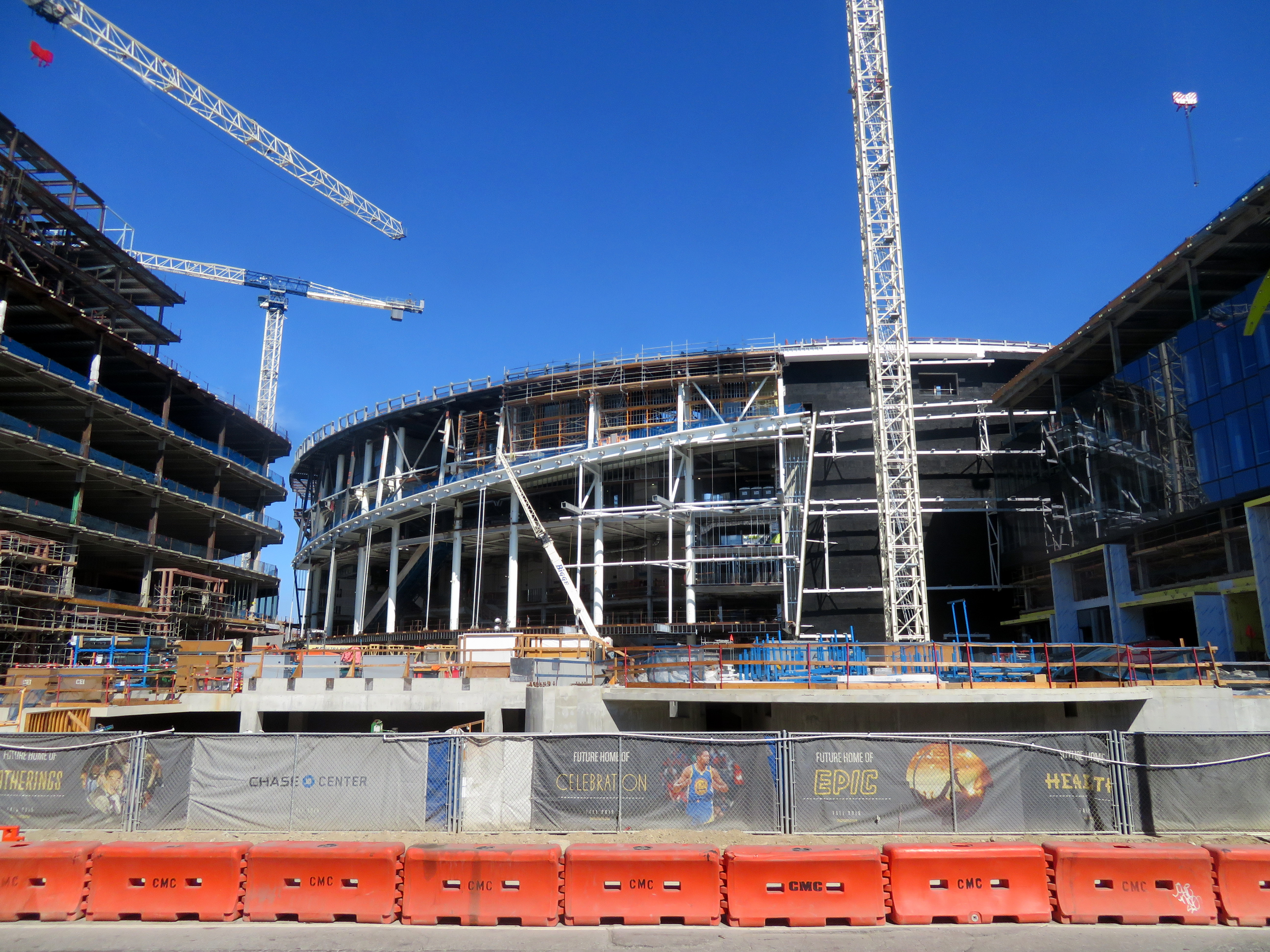 Chase Center under construction in August 2018